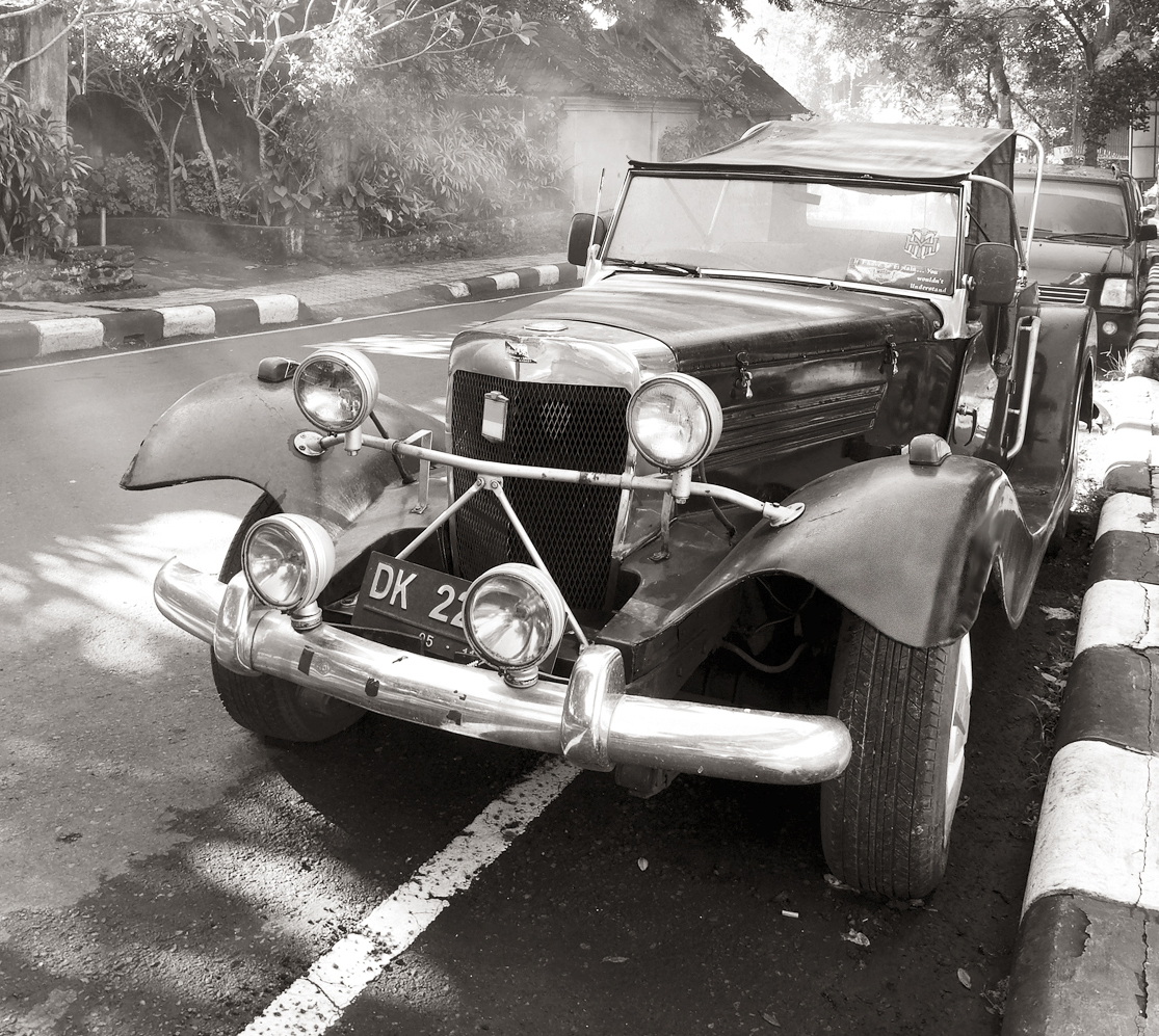 A "Marvia Classic", an Indonesian kit car using Suzuki internals seen on the jalan Raya Sanggingan in Ubud, Bali, Indonesia. This one is built on a Suzuki Carry chassis, although the Classic was originally developed to fit atop the Suzuki SJ410 underpinnings.